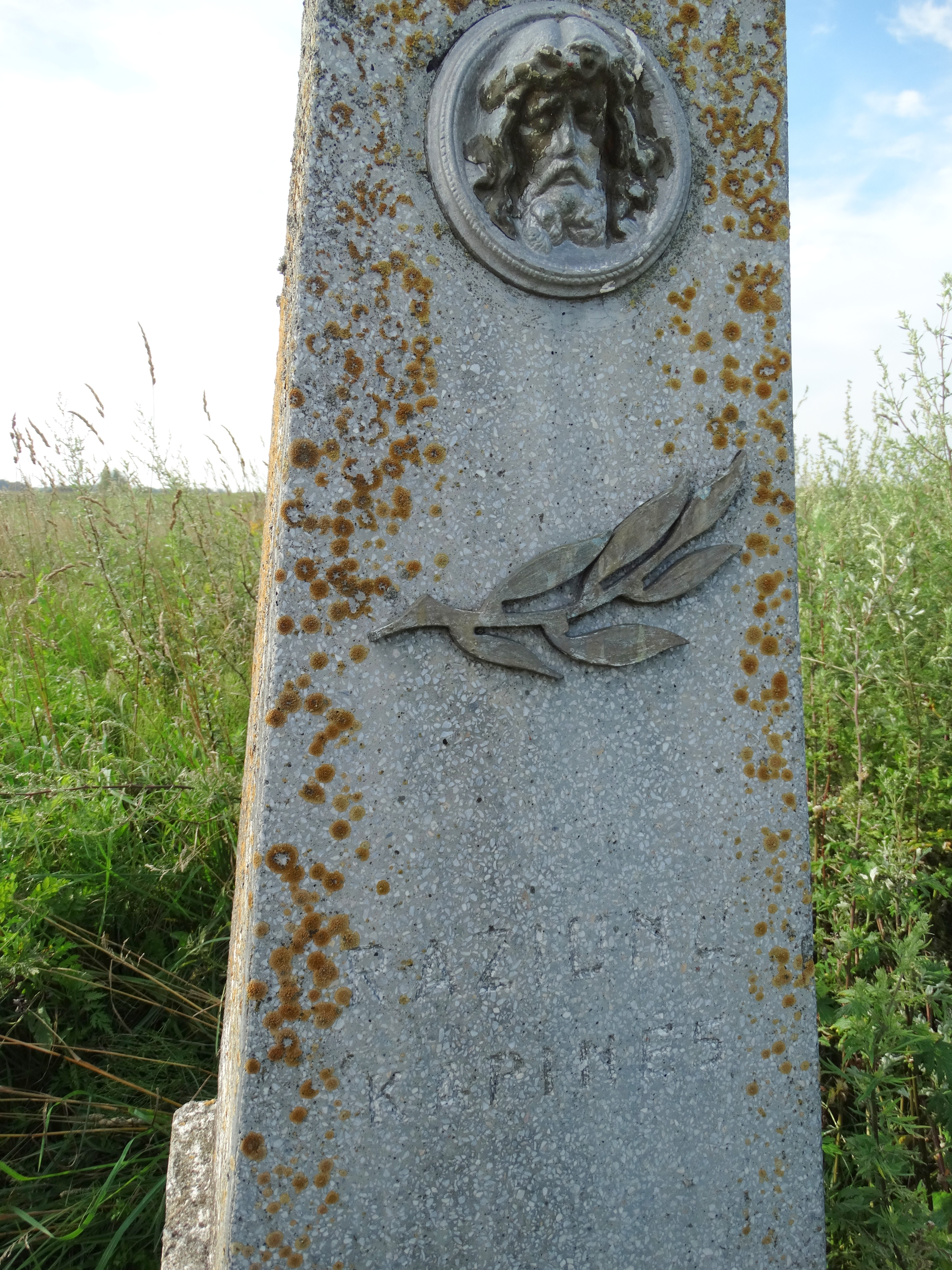 Raziūnai (former village), Ukmergė District, Lithuania